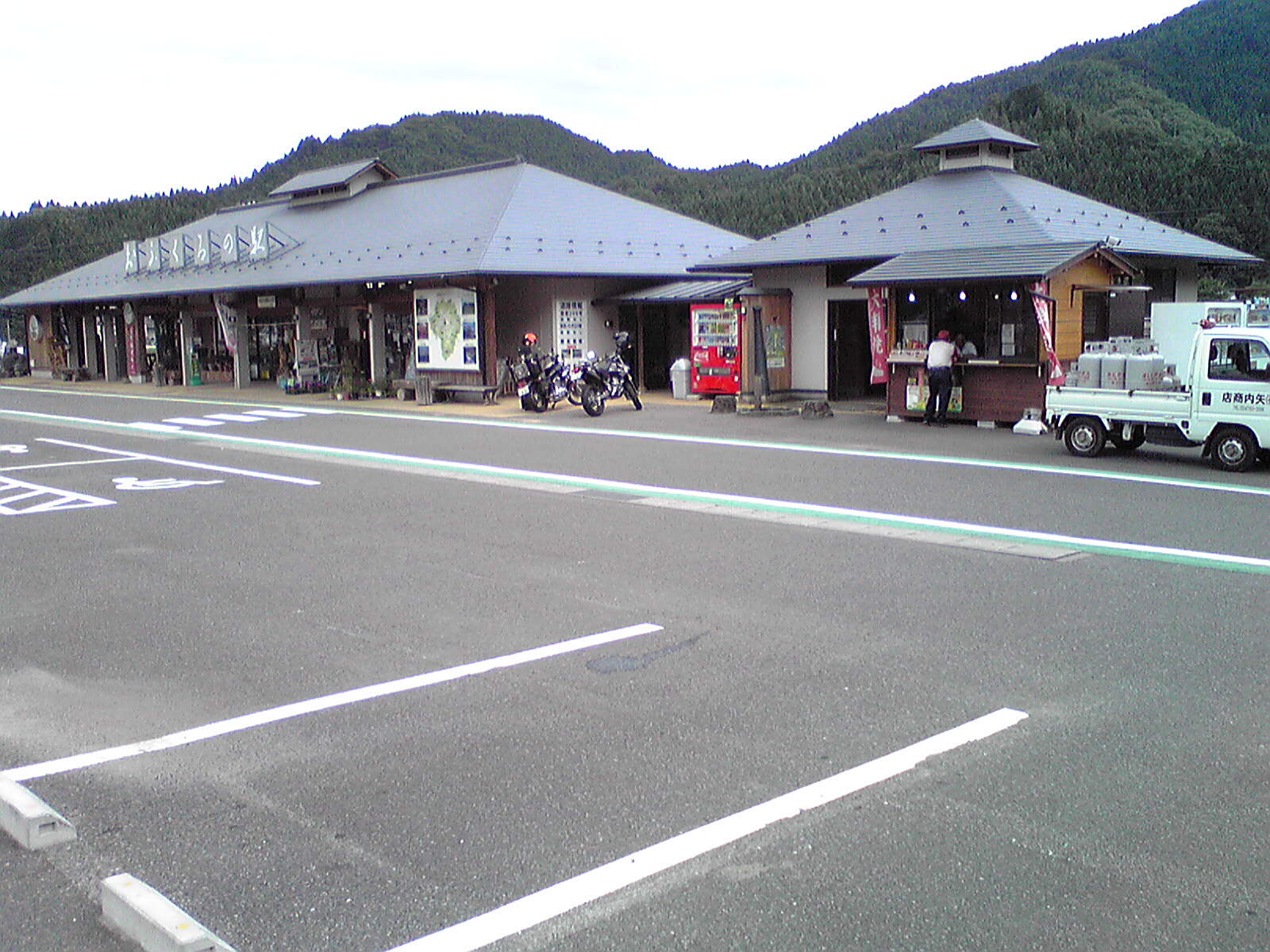 Building facade, Furudono, Roadside Station, Fukushima, Japan.